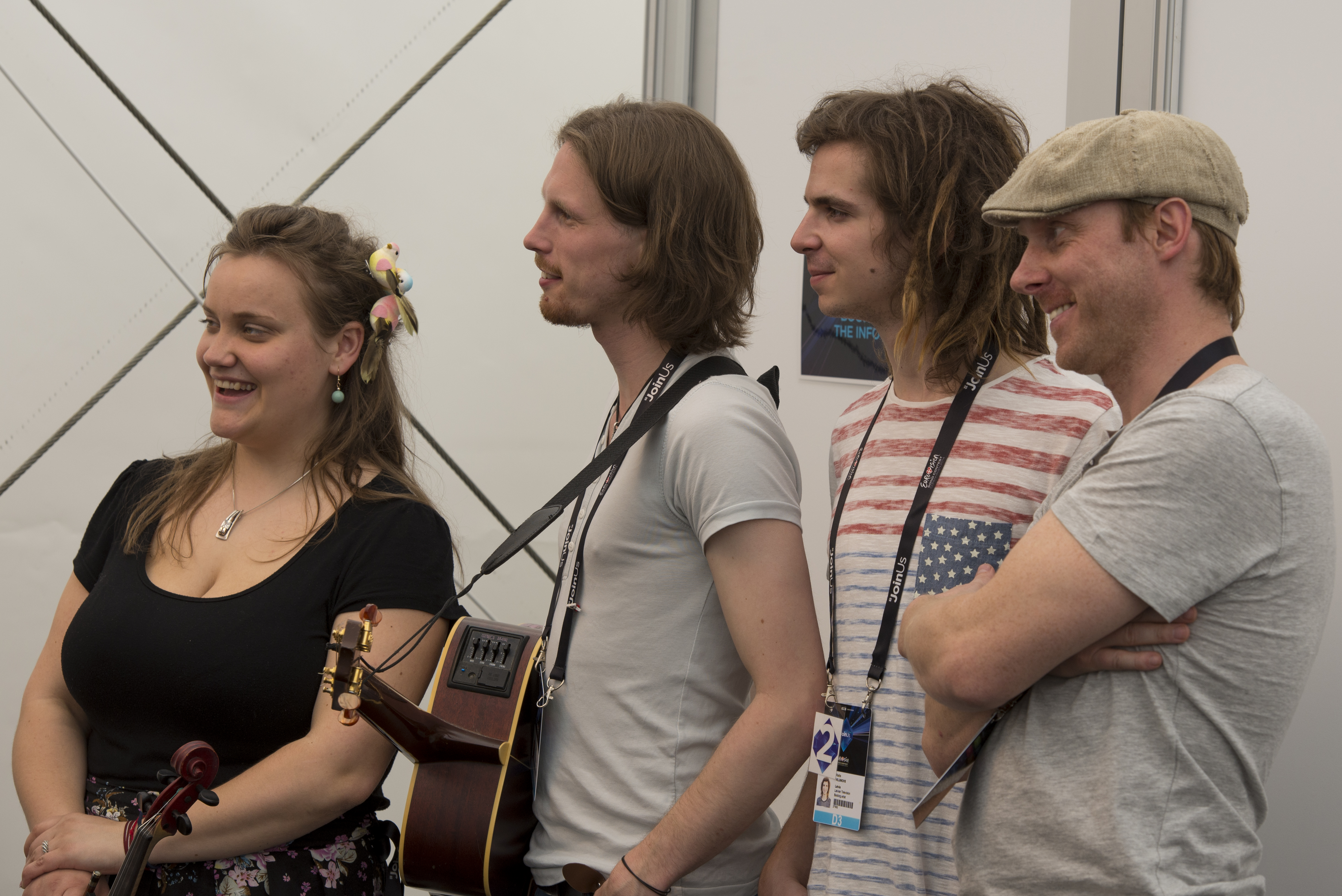 Aarzemnieki at a Meet & Greet during the Eurovision Song Contest 2014 Copenhagen. (Help translate this text)